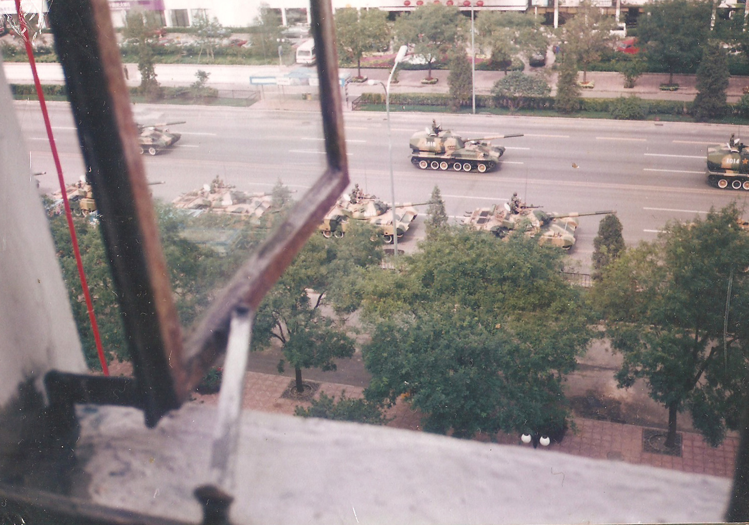 50th anniversary of the People's Republic of China, taken in my apartment, opposite of Jinglun hotel, when I was 5 years old. The vehicles are PTZ-89 tank destroyers.中文（中国大陆）: 首都各界庆祝中华人民共和国成立50周年大会后，5岁的我坐在家（京伦饭店对面）里的桌子上，用傻瓜相机，第一次拍摄历史时刻的照片。